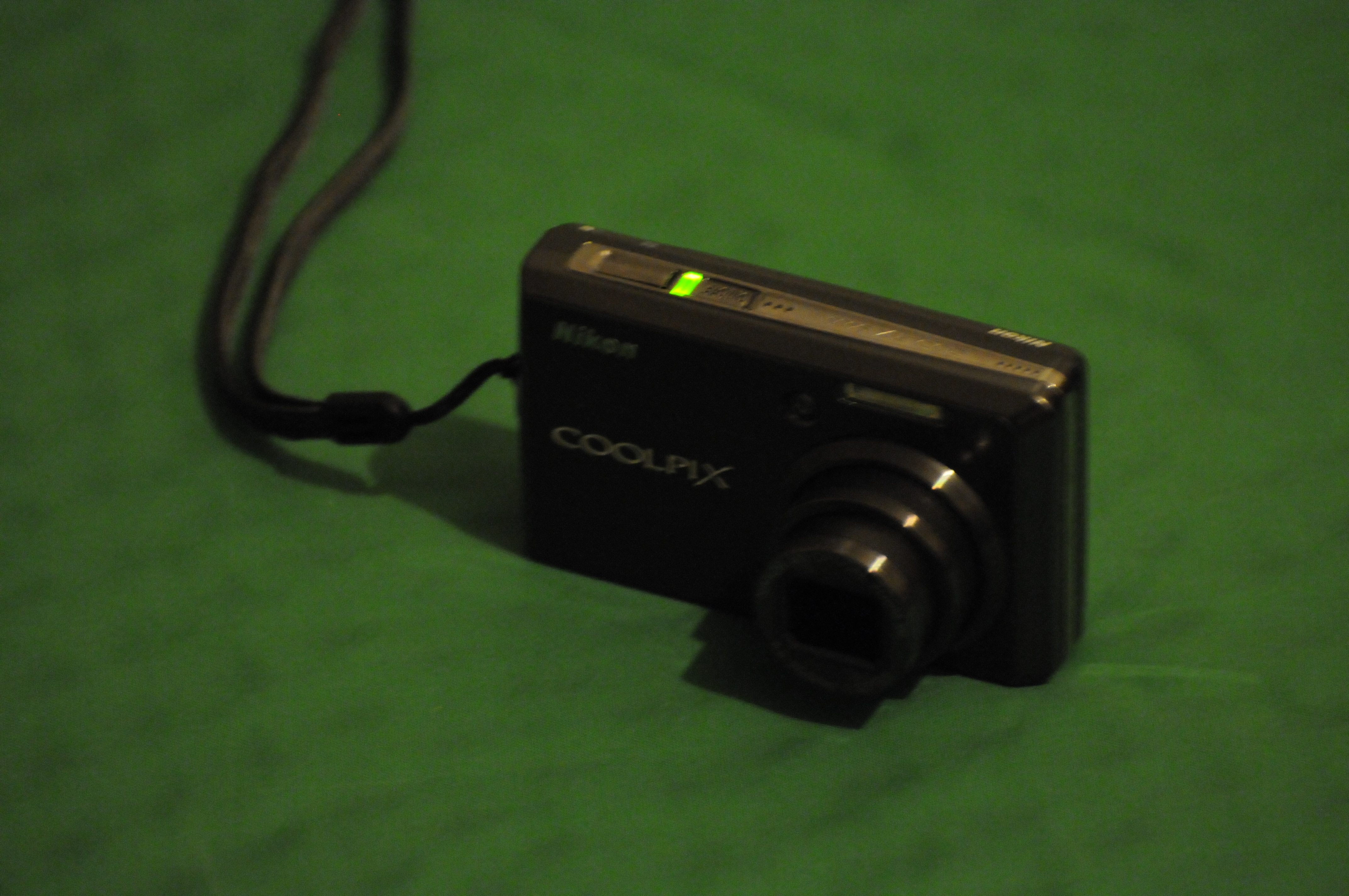 nikon coolpix s600